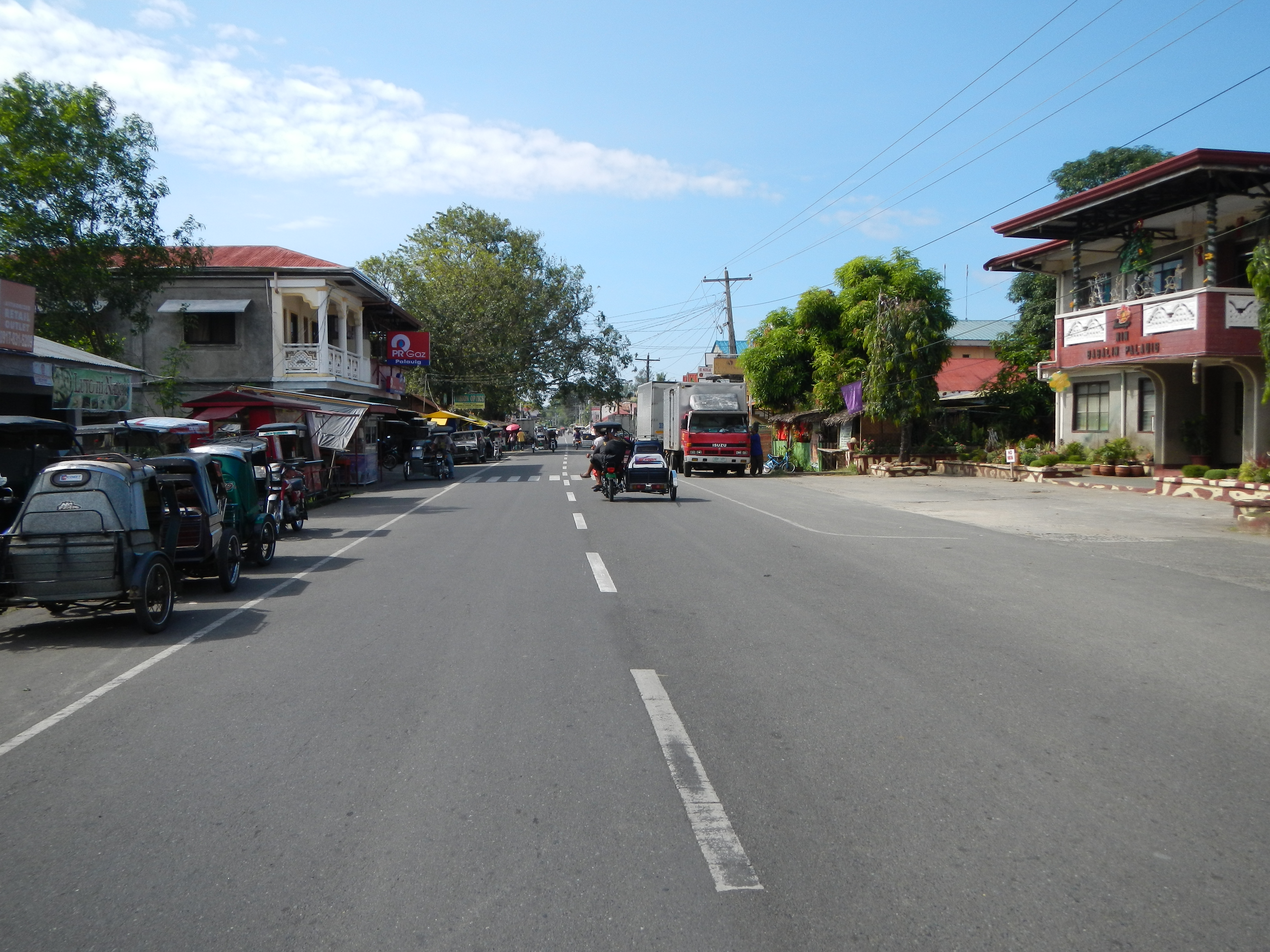 Upload Wizard Panorama photos of - Palauig, Zambales [1] the Crossing, Junction, Carabao Statute Monument, and Welcome Arch surrounded by greens, rice fields, paddys, trees and the Palauig Cockpit Arena - the gateway to the Town Proper, along Maharlika or Pan-Philippine Highway - "Munisipyo Nin Babalin Palauig", Town Hall Complex along National Road, the Auditorium, Grandstand, Police Station, Town Park and Plaza.